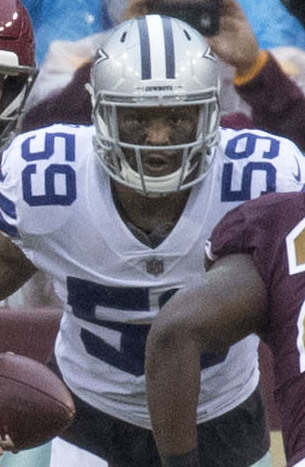 Cowboys at Redskins 10/29/17